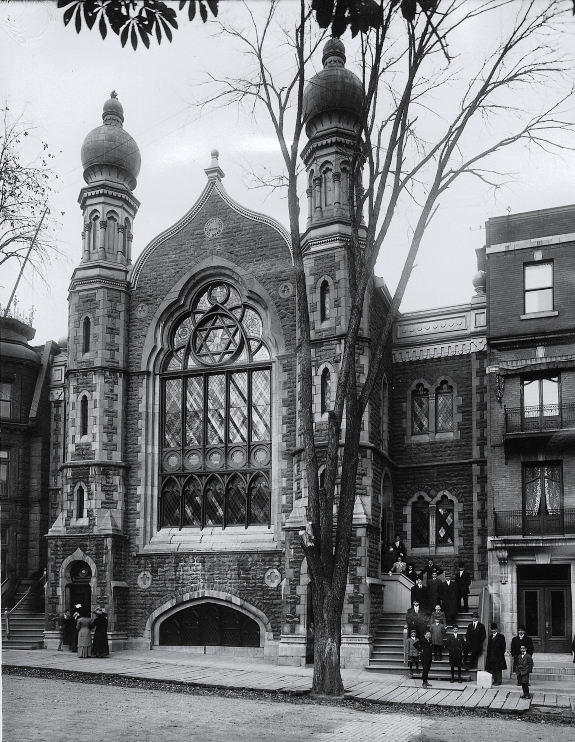 Photograph, Shaar Hashomayim synagogue, 59 McGill College Avenue, Montreal, about 1910-11, Wm. Notman & Son, Silver salts on glass - Gelatin dry plate process - 25 x 20 cm